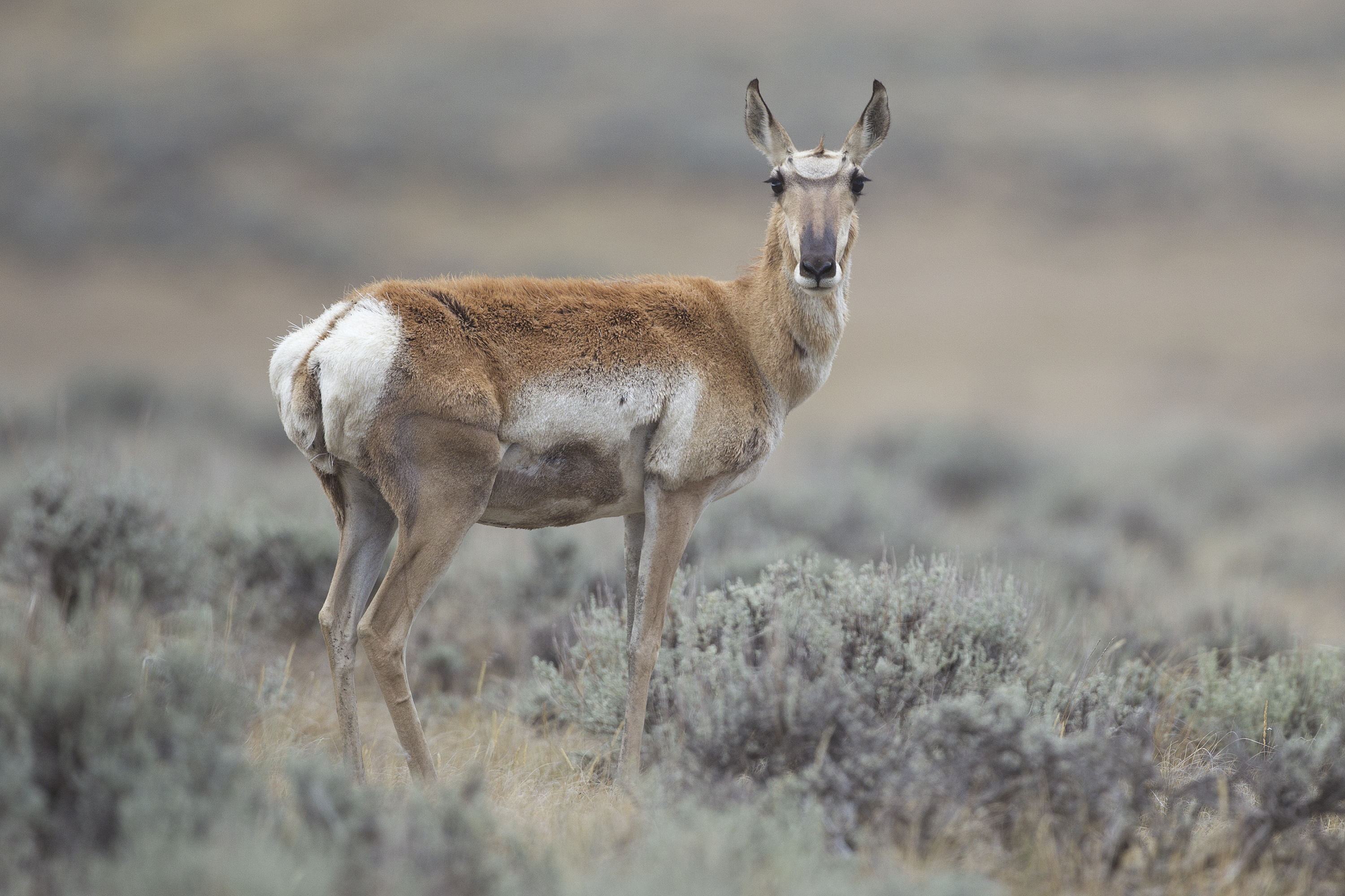 Pronghorn female in Wyoming